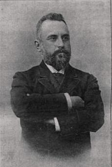 Endre Hőgyes